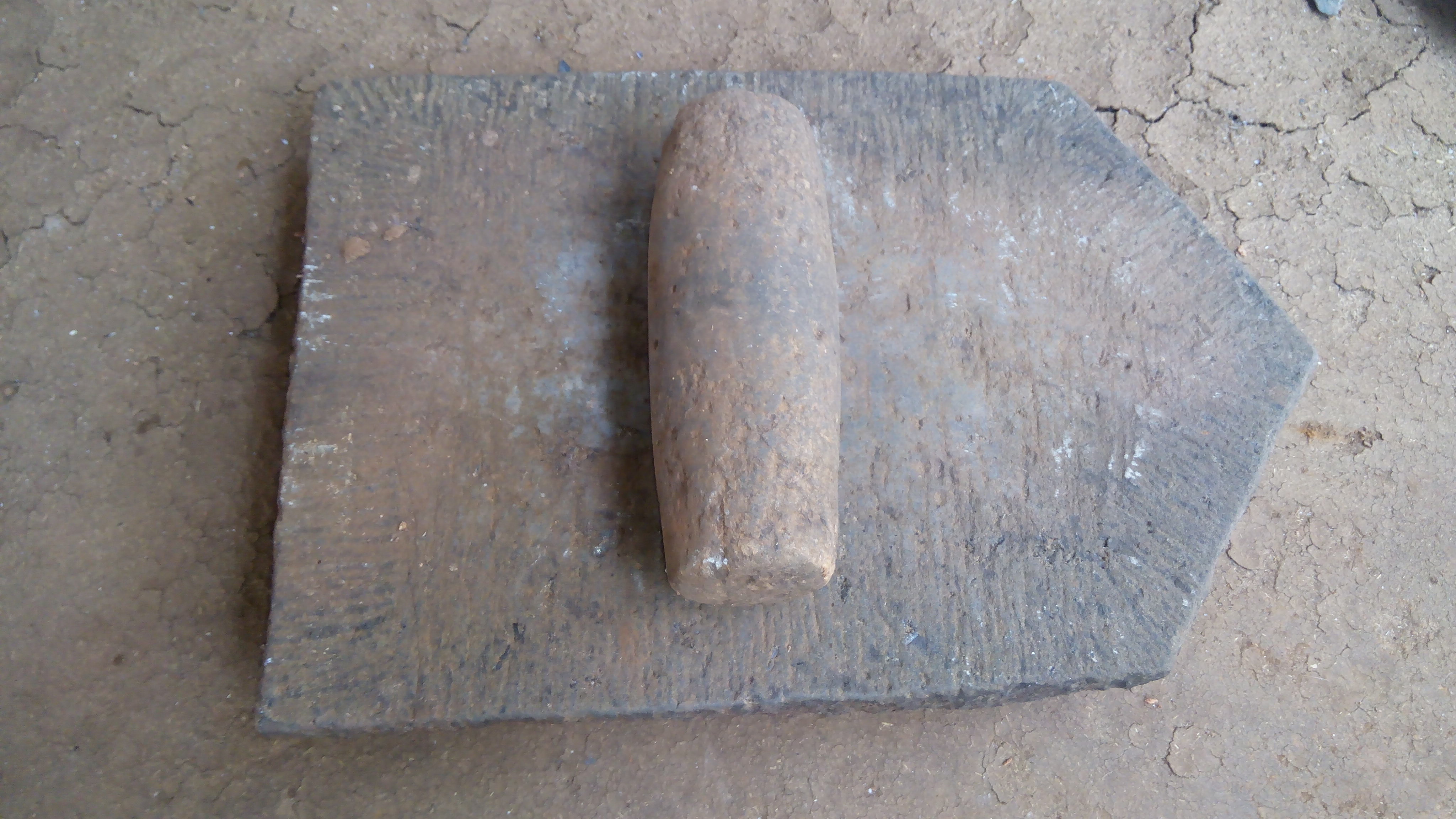 Pata Warranta is an Indian culinary instrument.